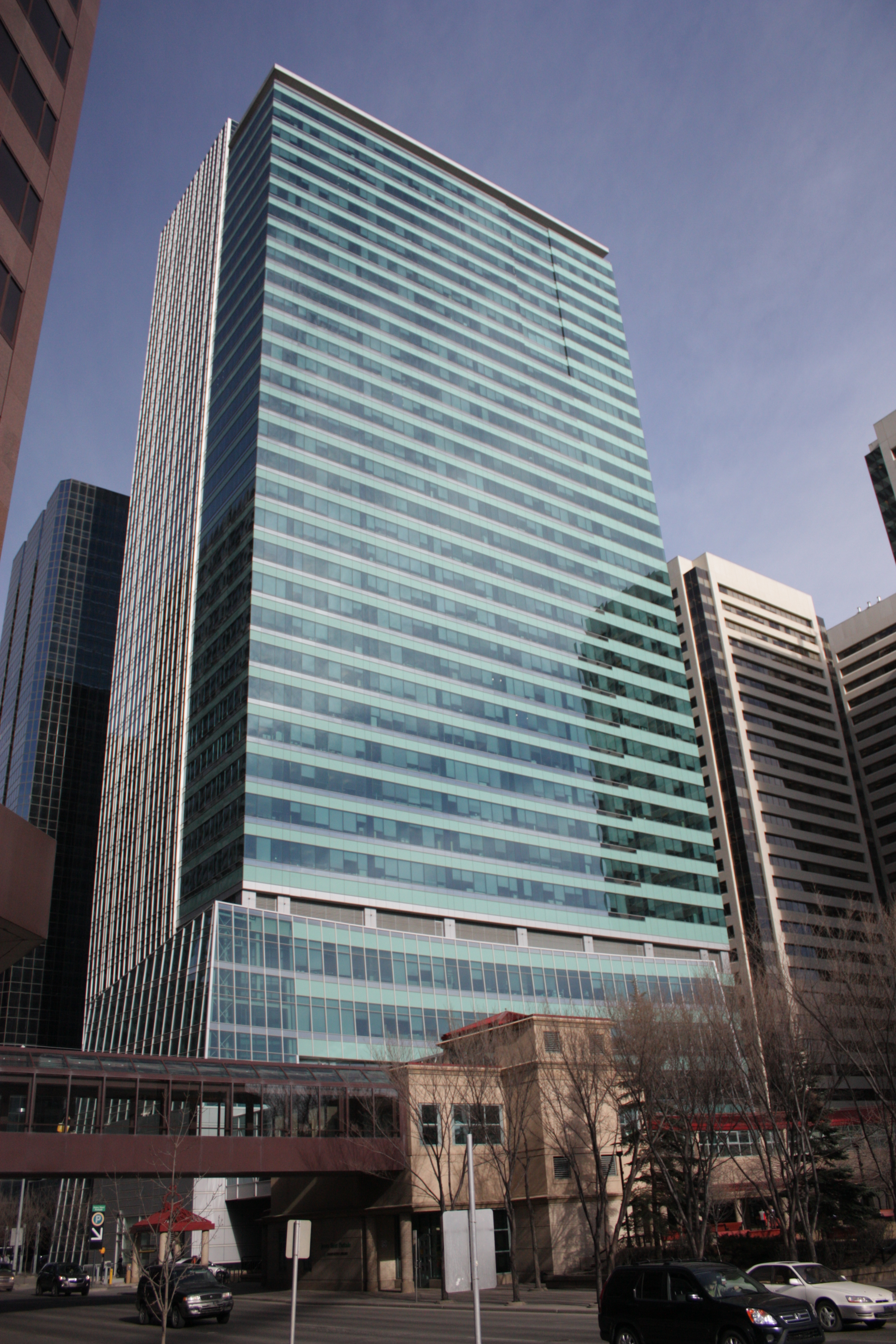 Transcanada Tower, Calgary, viewed at groundlevel facing northwest. April 20, 2009.